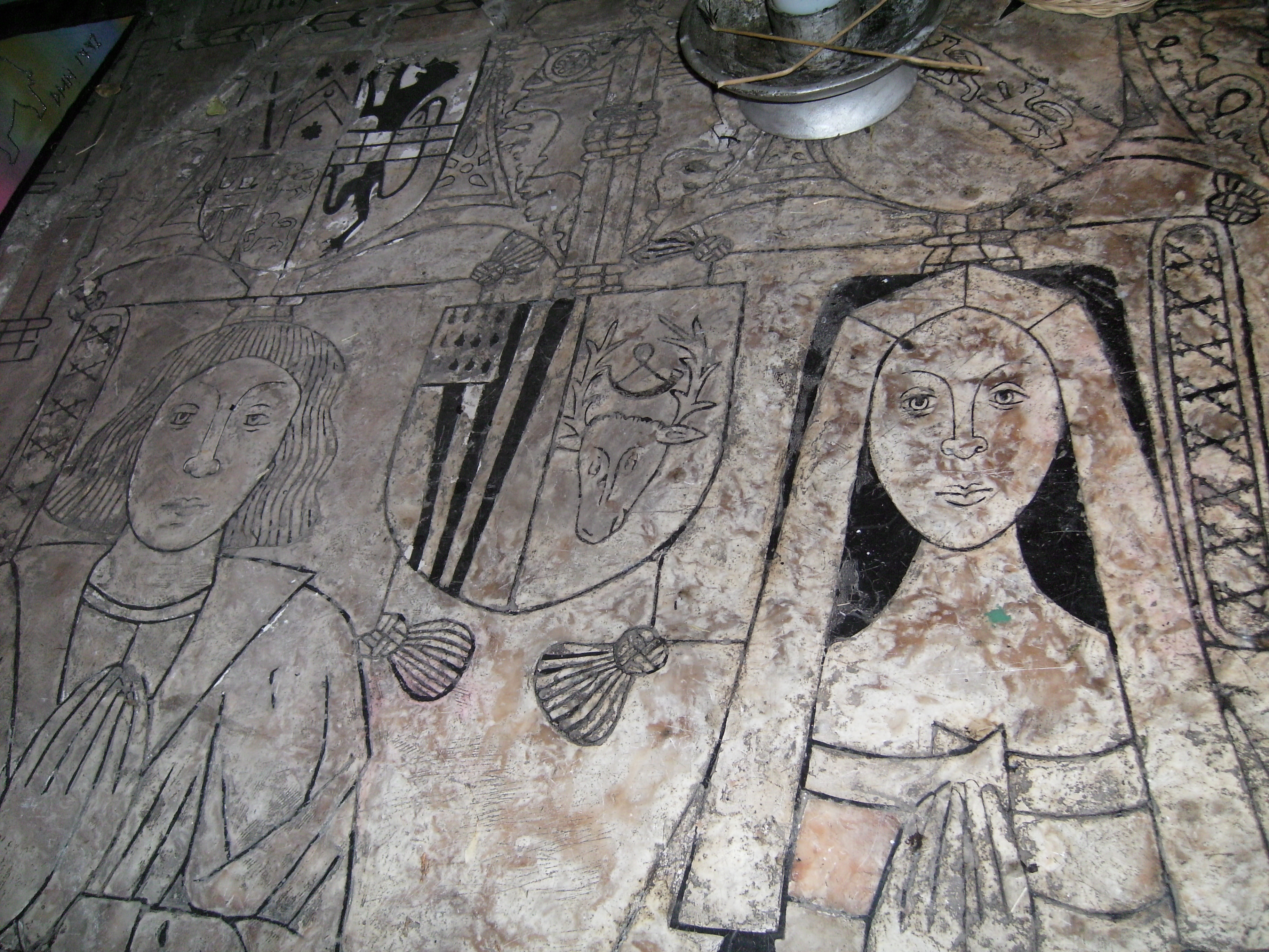 St. Michael and All Angels parish church, Penkridge, Staffordshire: incised slab on recessed table tomb of Richard Littleton (died 1518) and his wife Alice Wynnesbury (died 1529) in the south wall of the nave. Between their portraits is their marital coat of arms, blazoned Per pale, dexter: Argent three piles Sable, on a canton Argent twelve ___ Sable, three rows of four (for Littleton of Penkridge); sinister: ___ a hunting horn strung ___ between the antlers of a bucks head cabossed Proper (for Wynnesbury). Note: Usually Littleton of Penkridge is blazoned, Or three piles Sable meeting in point, on a canton Argent ....